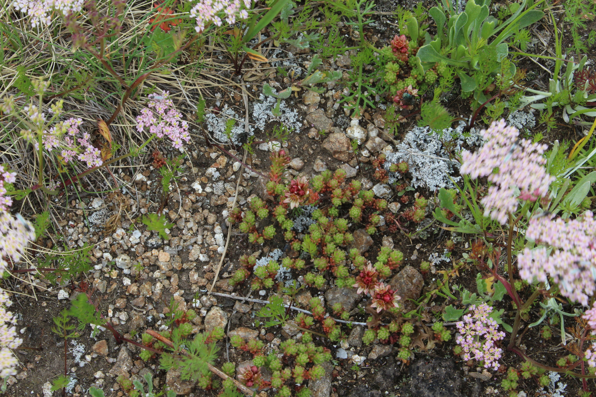 Sedum tenellum. Species of plant.